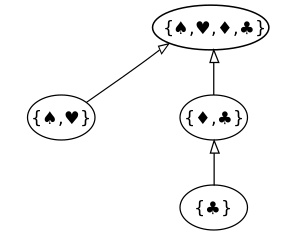 Hasse-diagram of the example of the Nested Set article